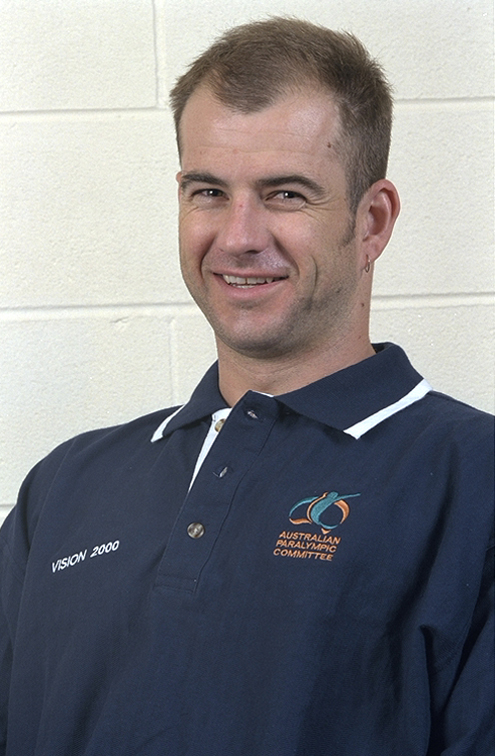 Portrait of Australian swimmer Scott Brockenshire, 2000 Australian Paralympic Team athlete